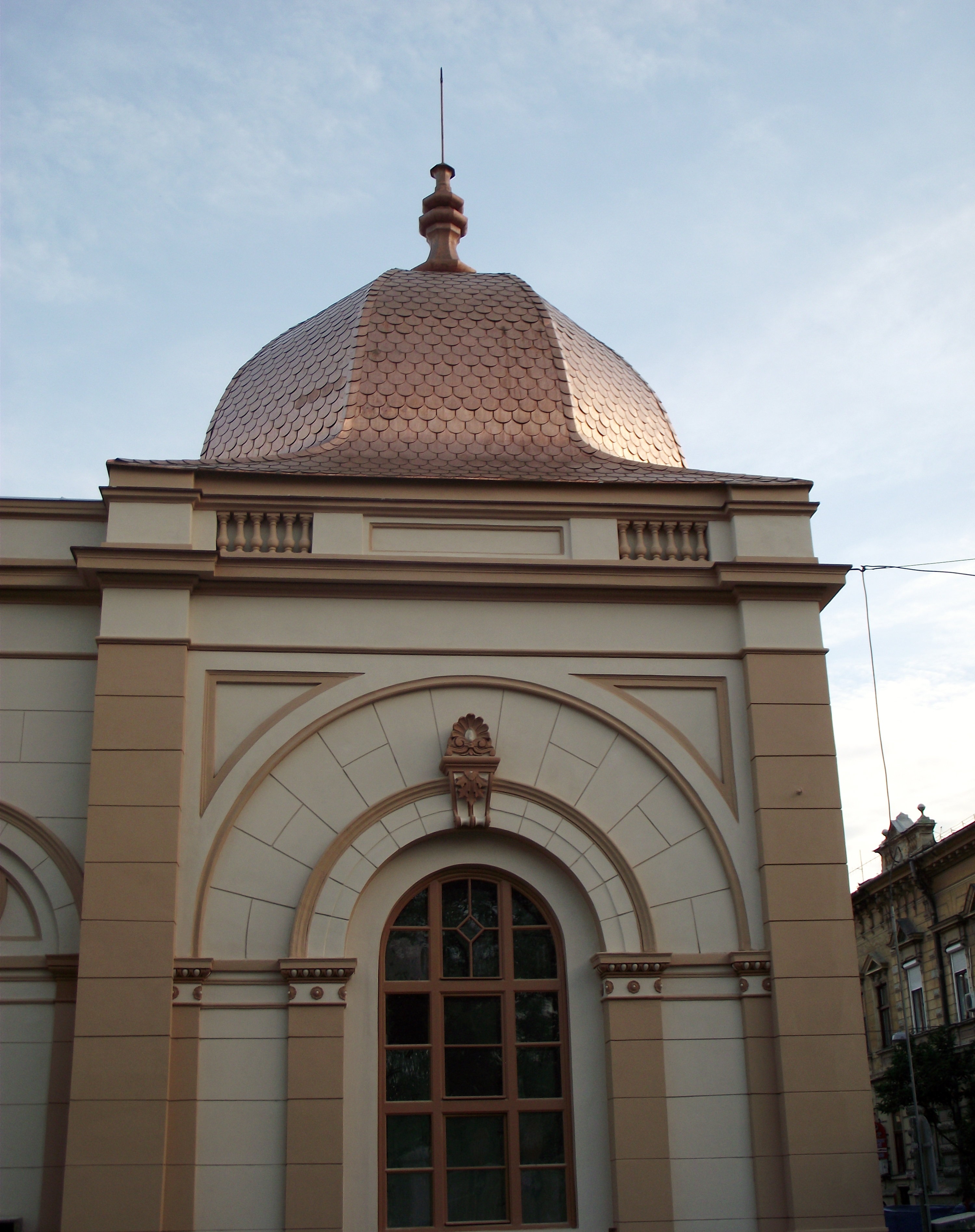 A sideview of the "Moise Nicoara" National College in Arad.